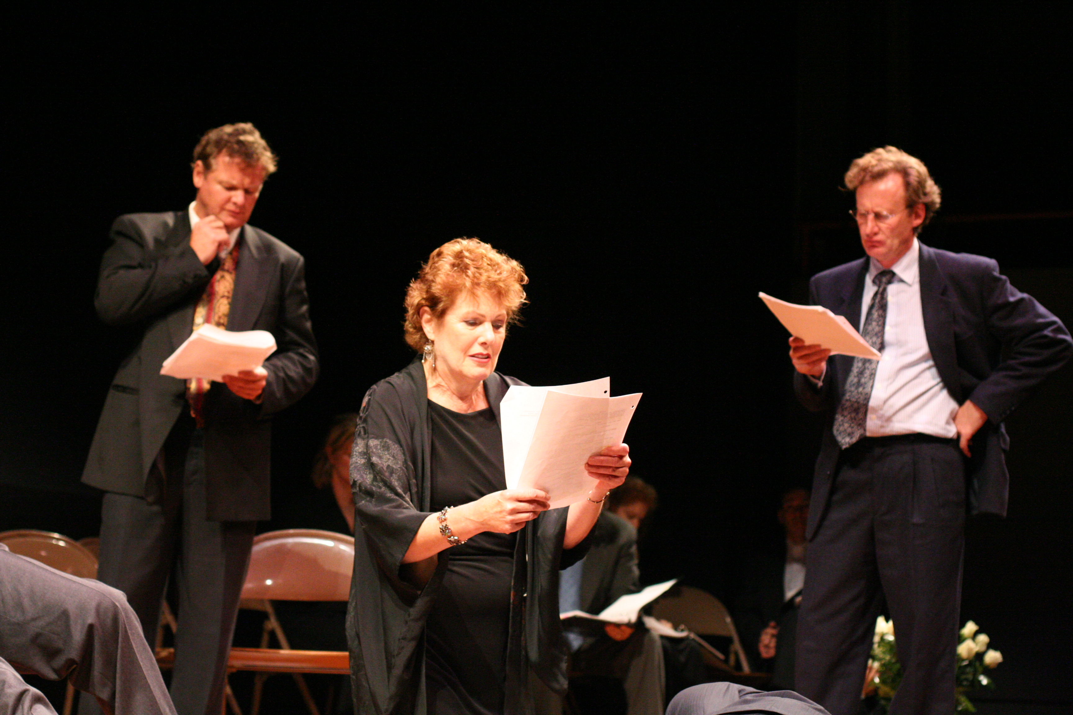 A performance still from H6R3 by the MRC